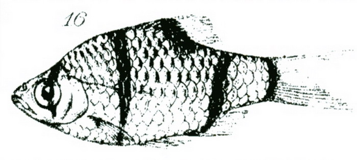 Puntius partipentazona FOWLER 1934; Drawing as Barbus sumatranus var. by Duncker